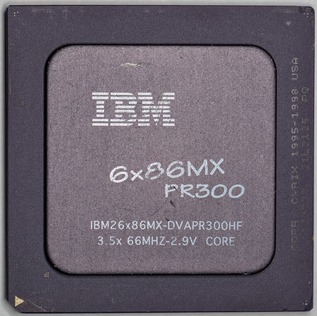 IBM PR 300 processor